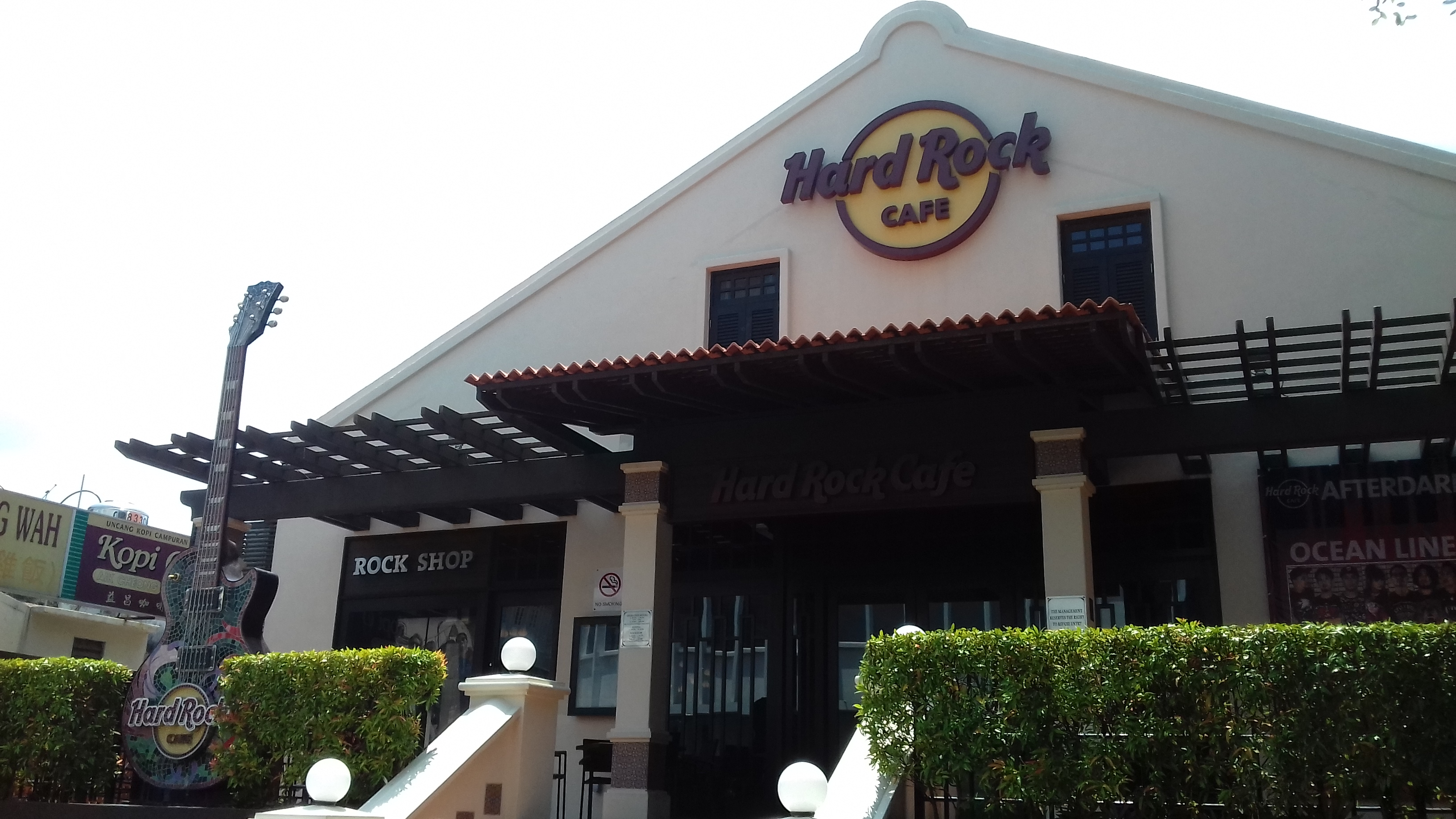 Hard Rock Cafe at Jonker Street, Melaka, Malaysia.